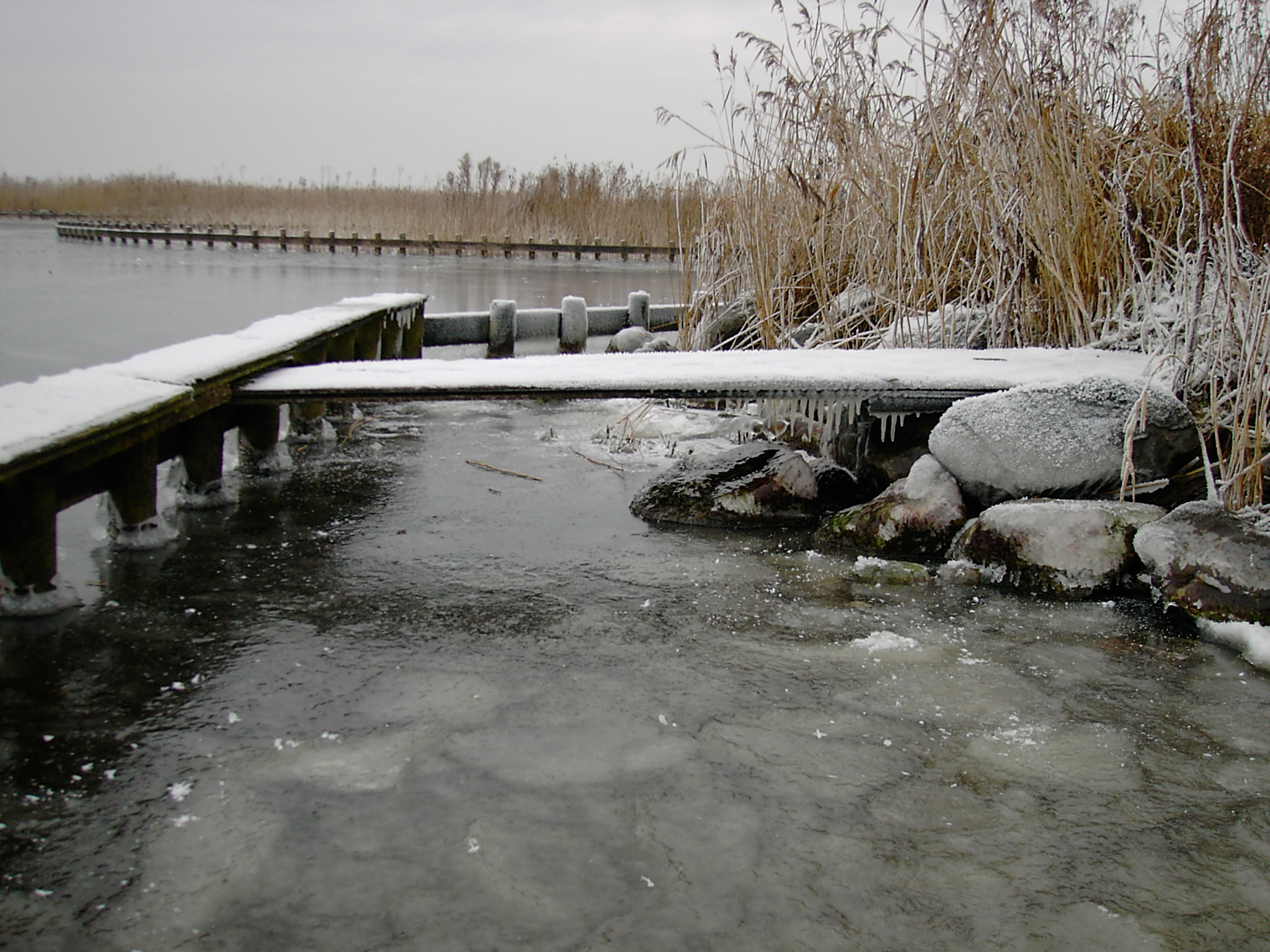 The side of the "slotermeer" with snow and ice